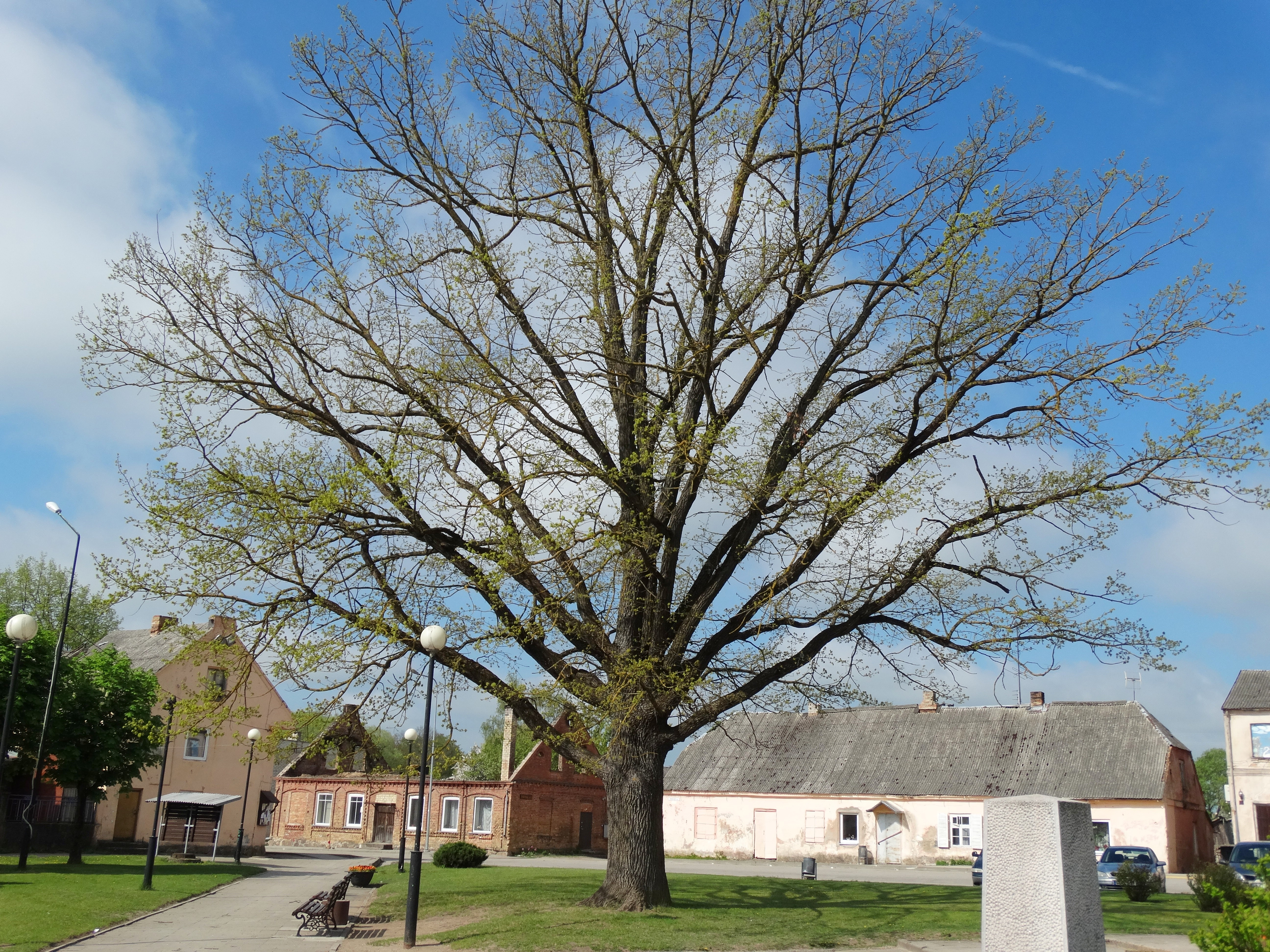 Unity oak, planted in May 1, 1923, Žeimelis, Lithuania